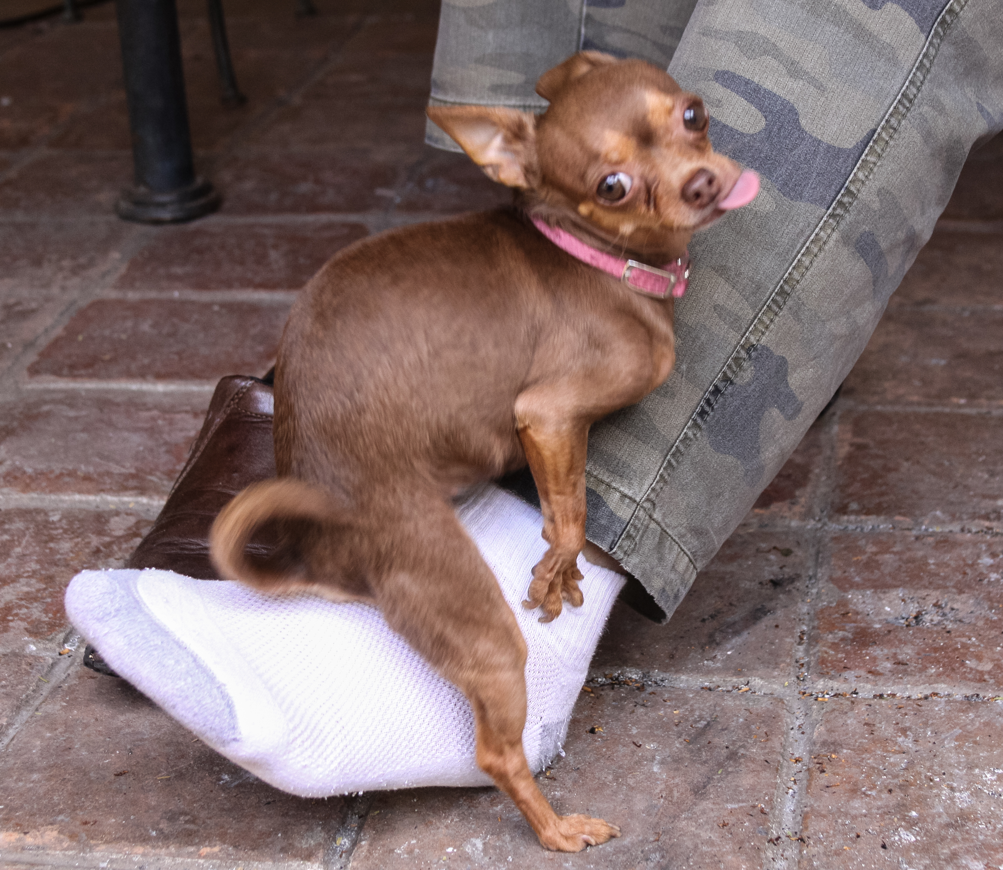 Humping Chihuahua... Common dog behavior.